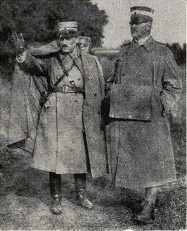 From the experiments with the Army's future infantry. Chief of the General Staff General Bo Boustedt (right) and the experiments leader, Colonel Hugo Cederschiöld (left).